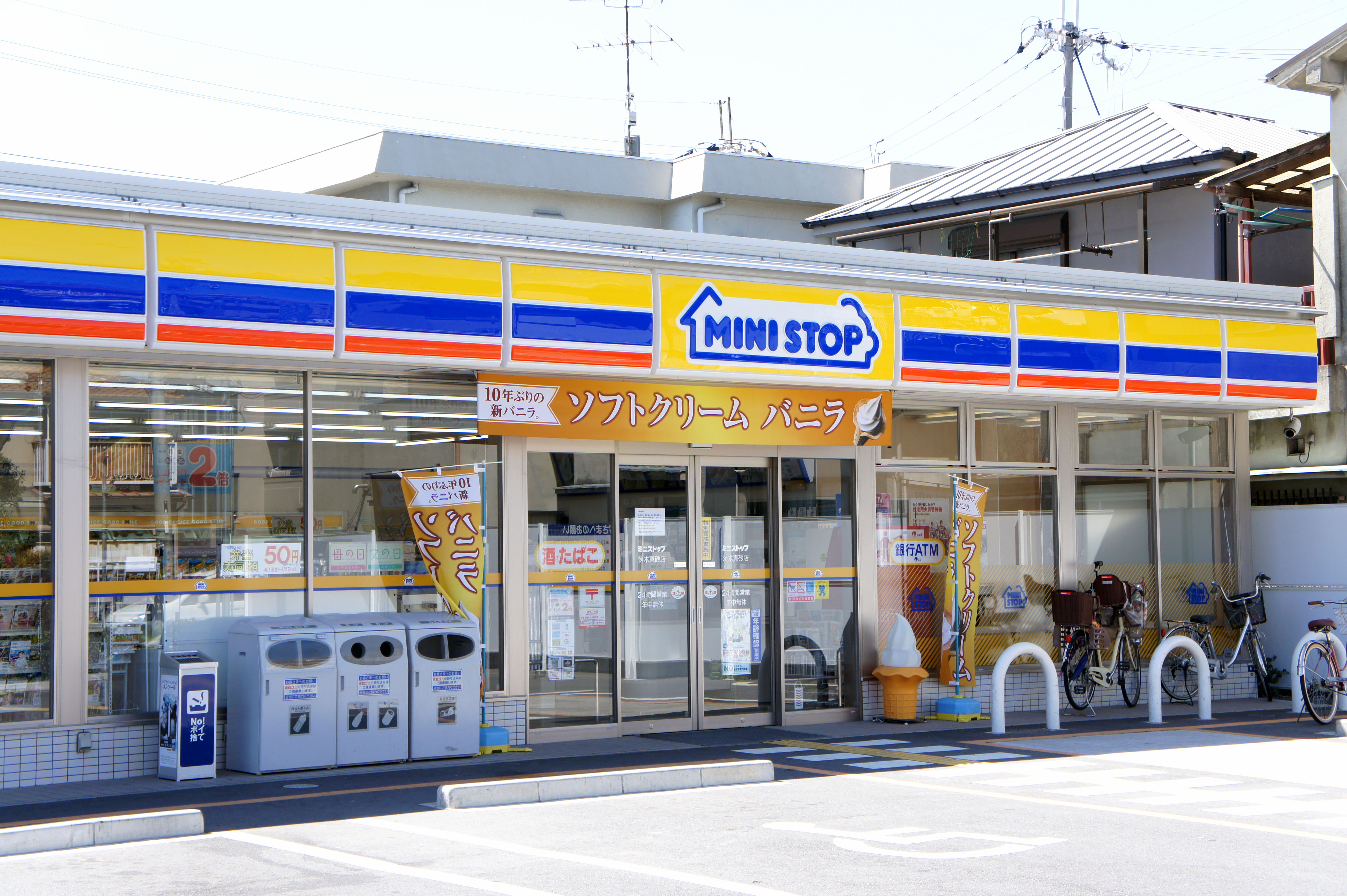 MINISTOP Ibaraki-Masago,1-6-3 Masago Ibaraki-City Osaka JAPAN.